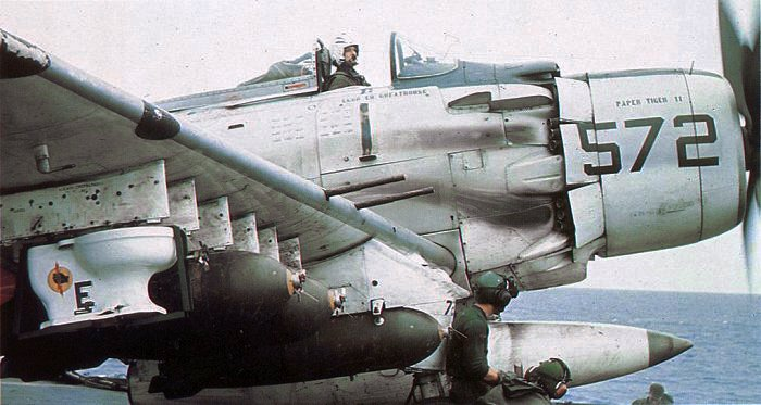 A U.S. Navy Douglas A-1H Skyraider (NE-572, BuNo 135297) "Paper Tiger II" (which was a temporary name used for just this one flight) of Attack Squadron 25 (VA-25) "Fist of the Fleet" being readied for a mission over the Mekong Delta aboard the aircraft carrier USS Midway (CVA-41), in October 1965. VA-25 was assigned to Attack Carrier Air Wing Two (CVW-2) aboard the Midway for a deployment to Vietnam from 6 March to 23 November 1965. To commemorate the mark of having delivered 6,000,000 lb. (2721.56 to) of ordnance NE-572 was equipped with a special "bomb", a toilet! The toilet was a damaged toilet, which was going to be thrown overboard. One of the plane captains of VA-25 saved it and the ordnance crew made a rack, tailfins and nose fuse for it. VA-25 personnel maintained a position to block the view of the Air Boss and the ship's Captain while the aircraft was taxiing forward to the catapult. The plane was piloted by X/O Cdr. Clarence W. Stoddard, wingman was LCdr. Robin Bacon (in NE-577, BuNo 139768, with Lt. Clint Johnson shot down a MiG-17 on 20 June 1965). When the "sani-flush-bomb" was dropped, it almost hit LCdr. Bacon's plane due to its light weight.Cdr. Bill Stoddard (now C/O) was shot down and killed by SAMs over North Vietnam on 14 September 1966, flying with VA-25 from the USS Coral Sea (CVA-43).